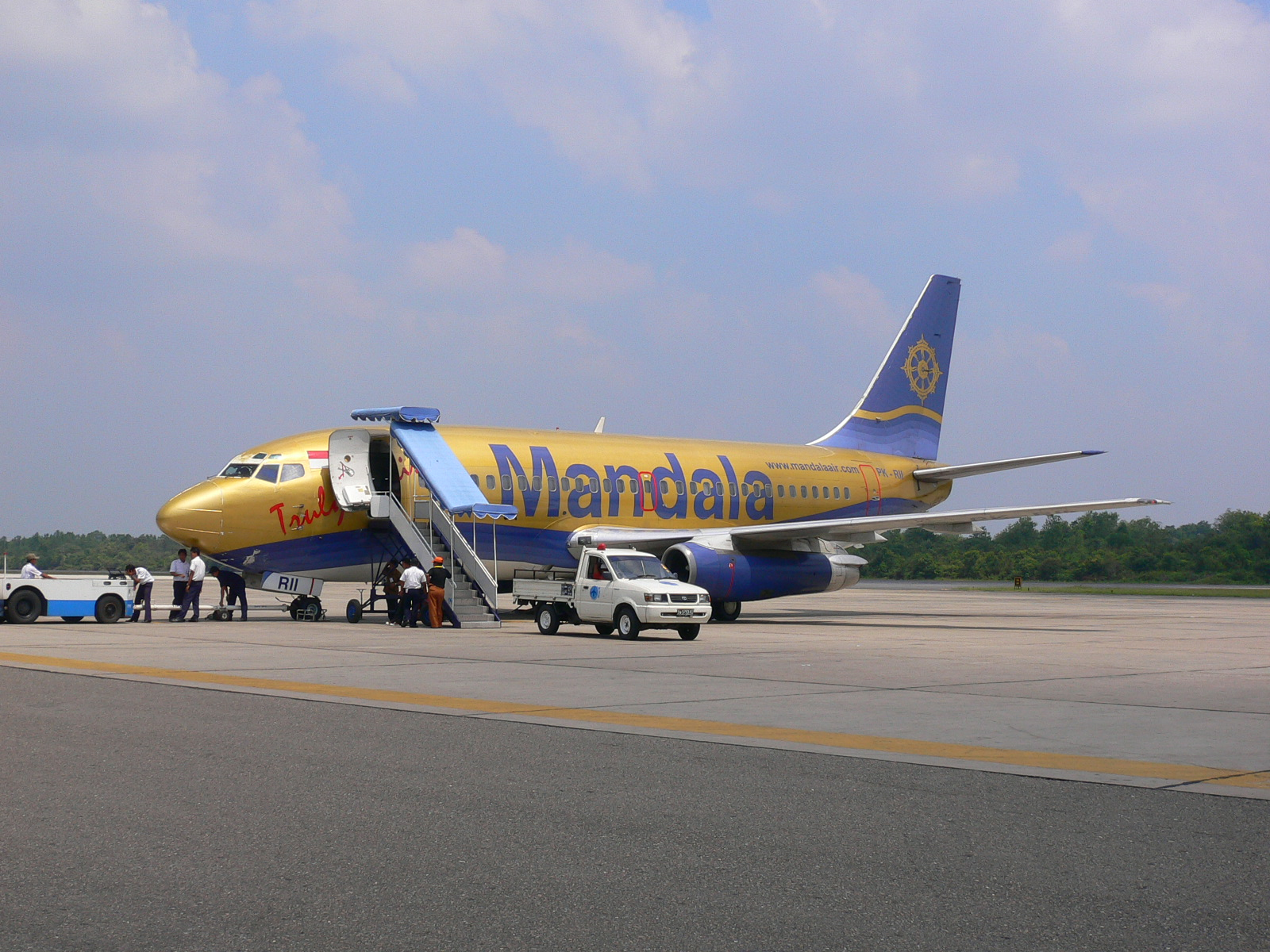 Photo of a 737-200 of Mandala Airlines in special livery. Registration PK-RII. Photo is taken on Pekanbaru's Airport when I'm about to board a MD-82 of Lion Air parked beside this plane.